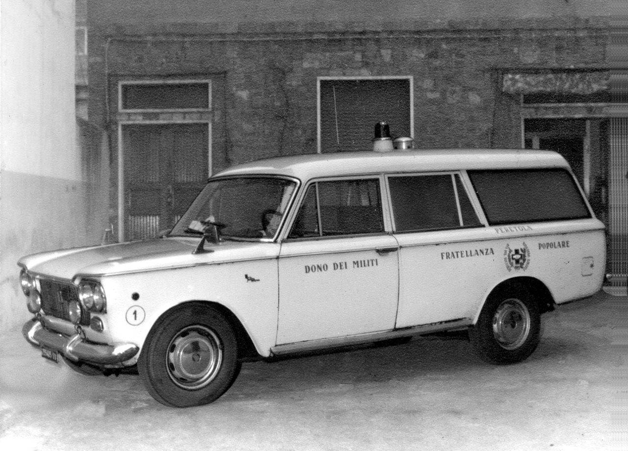 paolo